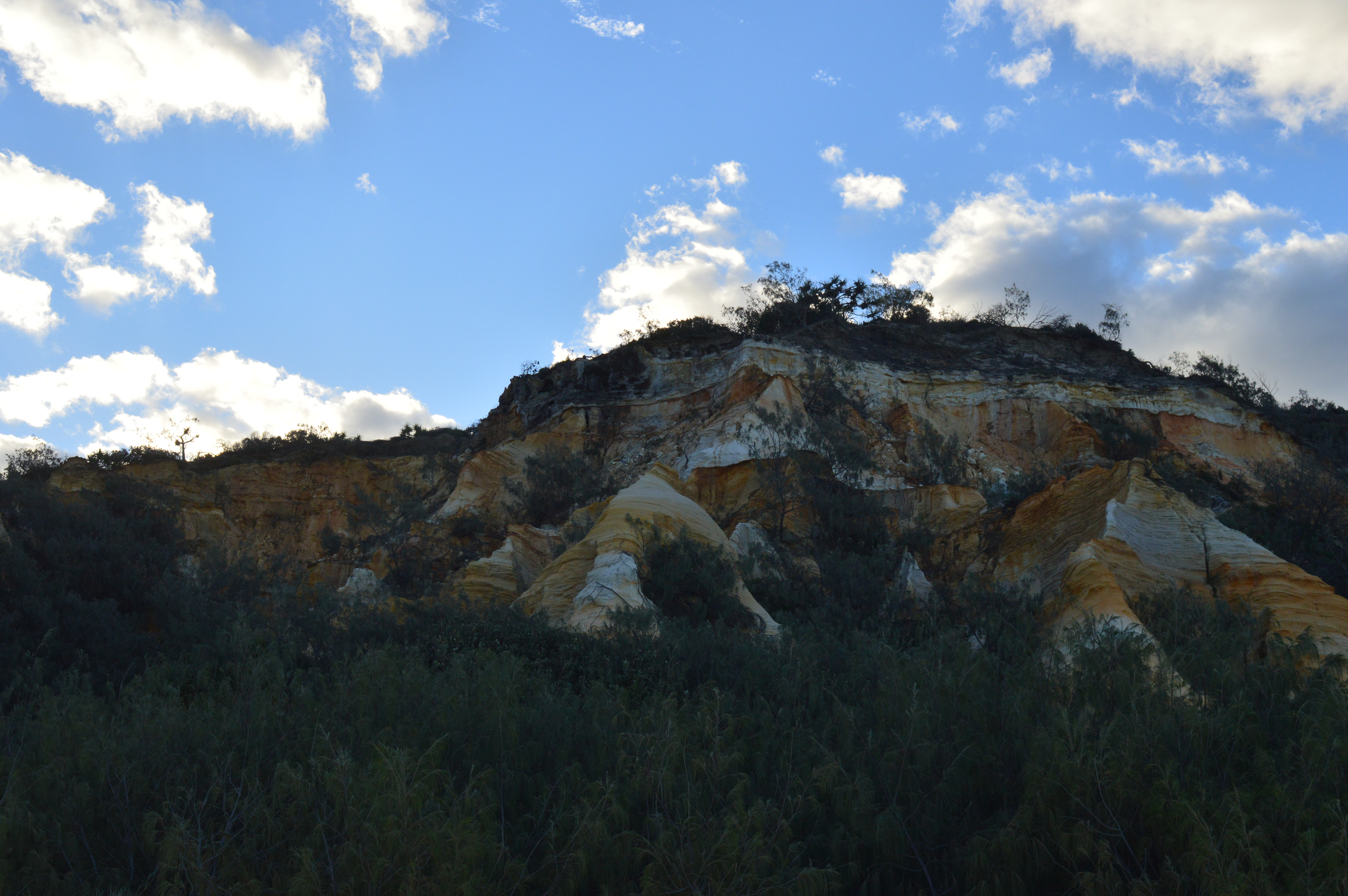 The coloured sands at the Pinnacles on Fraser Island, in Queensland, Australia.